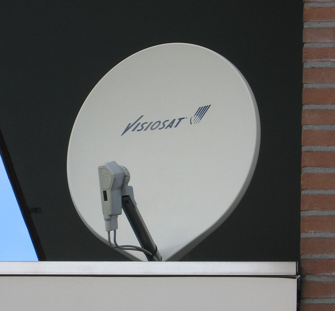 Photo of an offset satellite dish